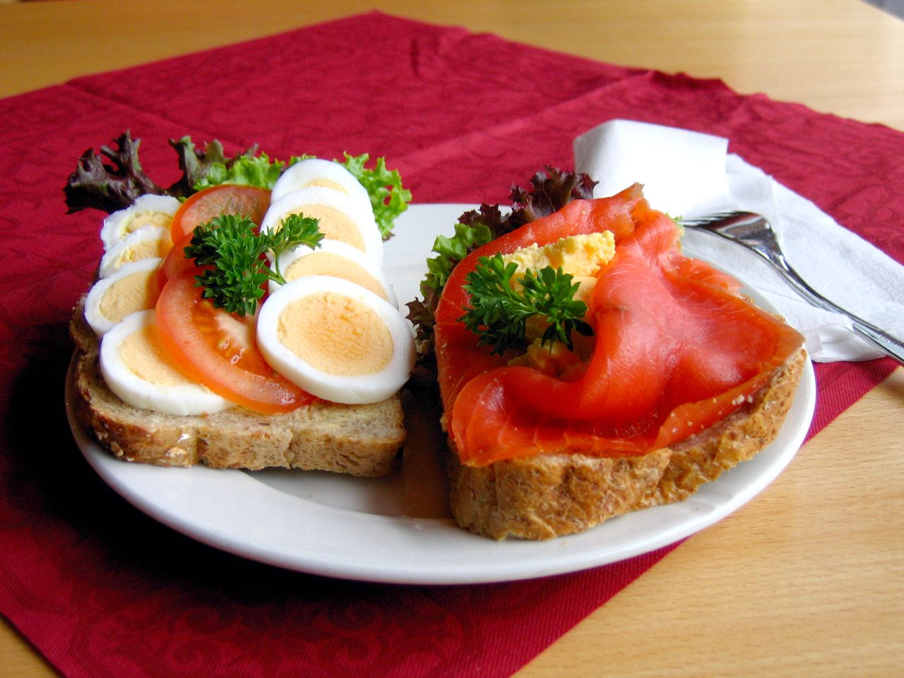 Open-face sandwiches at cafeteria in Flåm